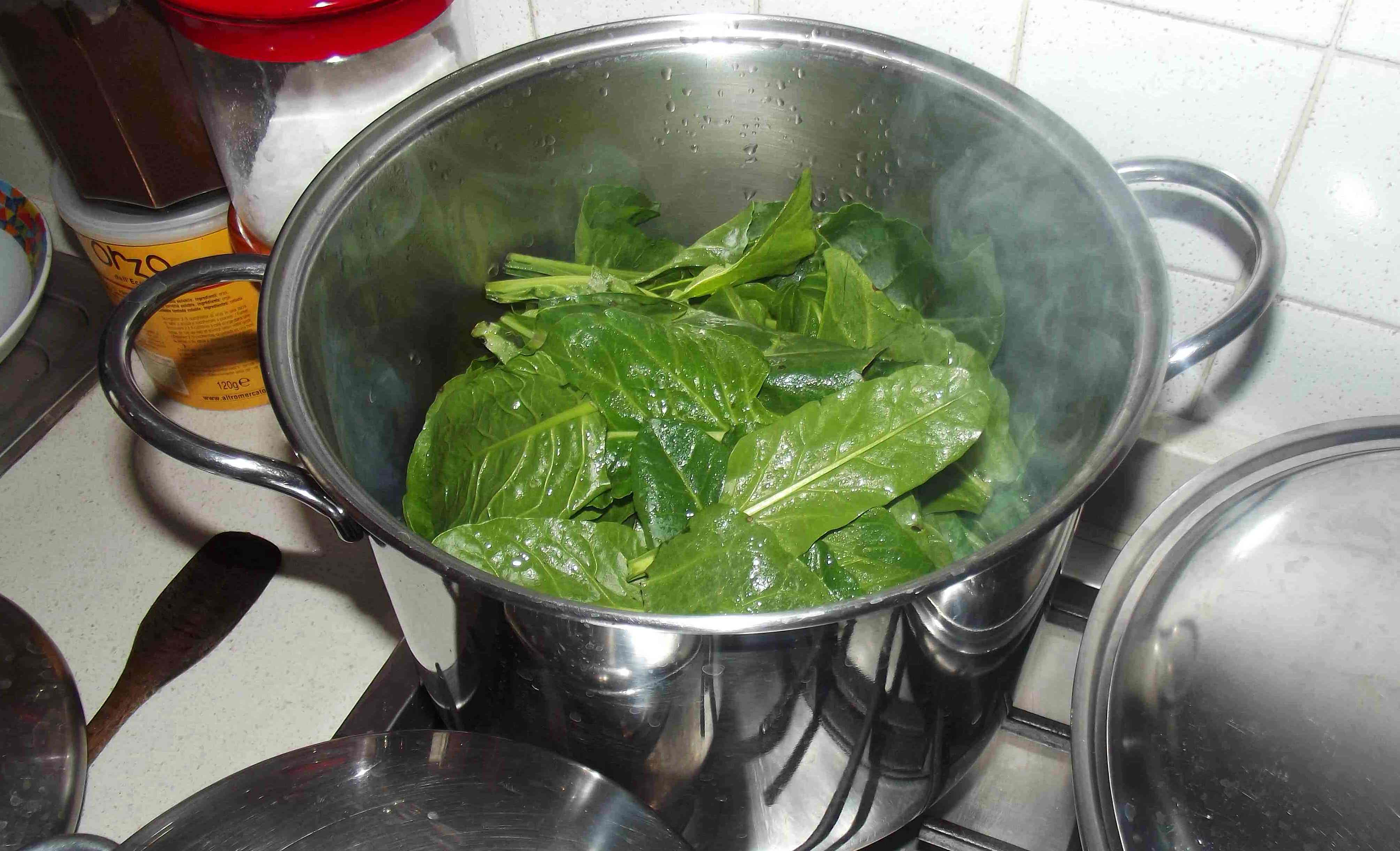 Stuffed anchovies: swiss chard boiling